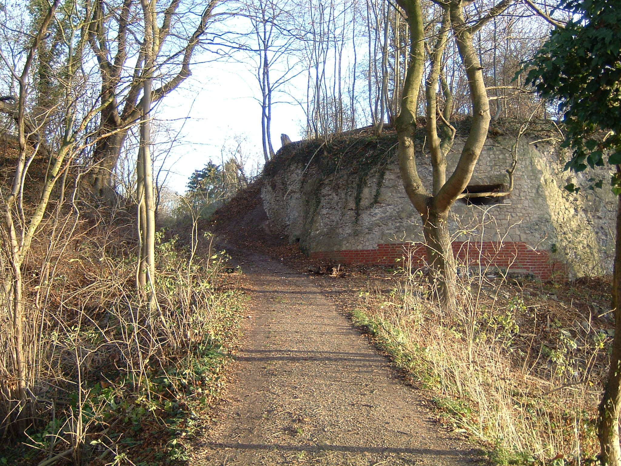 Remains of the Castle Calenberg near Hildesheim, Germany; here: Artillerietower at entrance